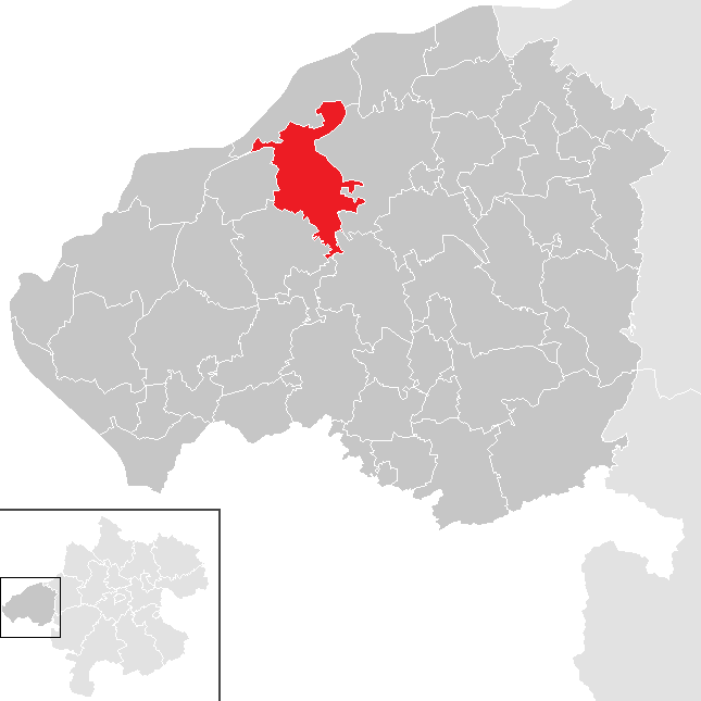 district Braunau am Inn